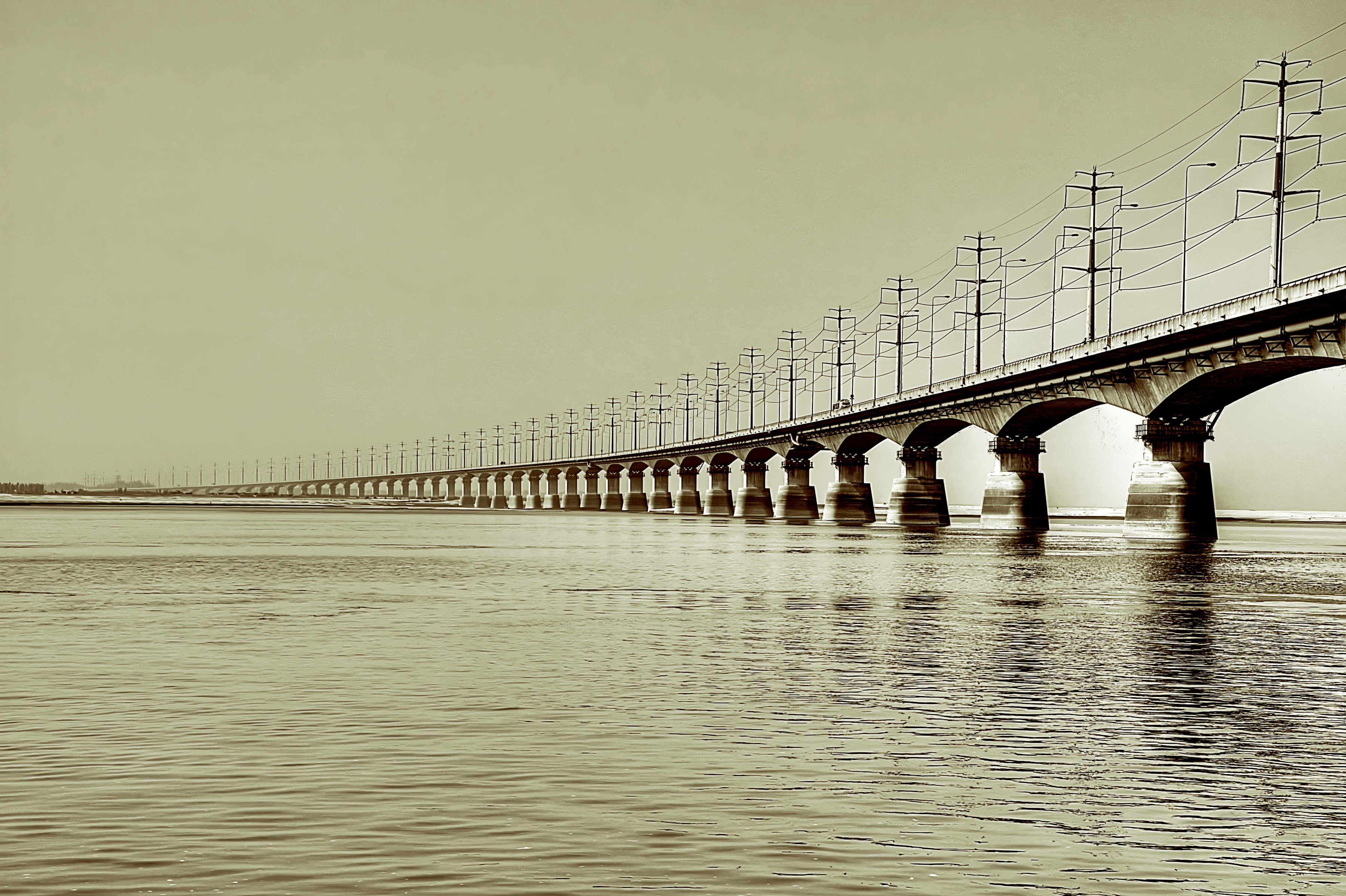 Bangabandhu Bridge, commonly called the Jamuna Multi-purpose Bridge, It was the 11th longest bridge in the world when constructed in 1998[2] and currently the 6th longest bridge in South Asia. It was constructed over the Jamuna River, one of the three major rivers of Bangladesh, and fifth largest in the world in discharge volume.